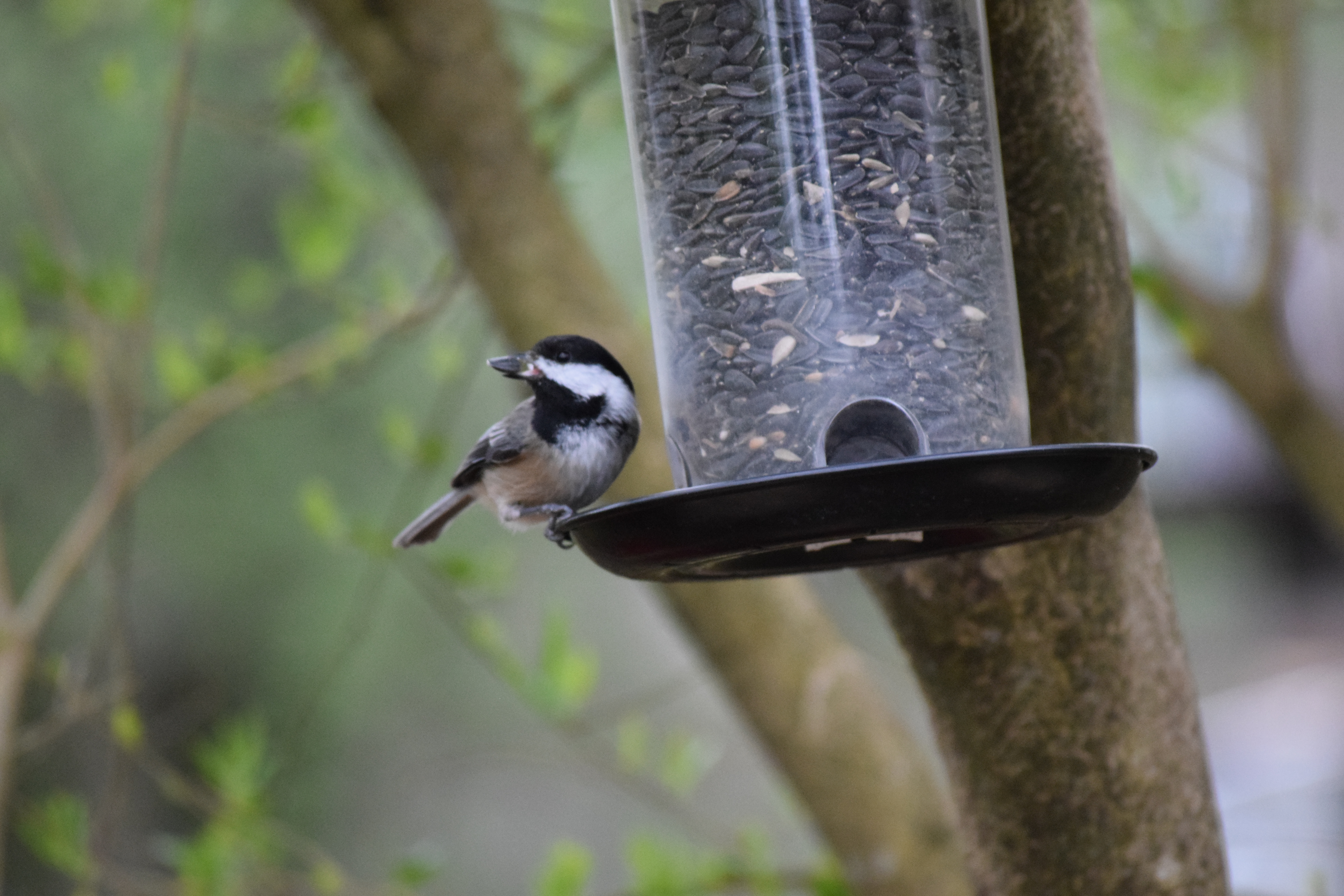 Black-capped Chickadee at birdfeeder in Everett, WA, USA